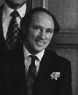 Pierre Trudeau in the 1970s